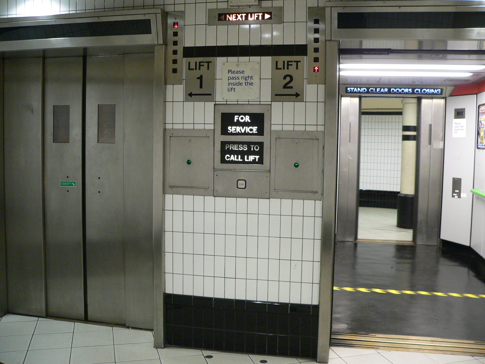 The lifts from platform level to street level at Borough station on London Underground's Northern Line.